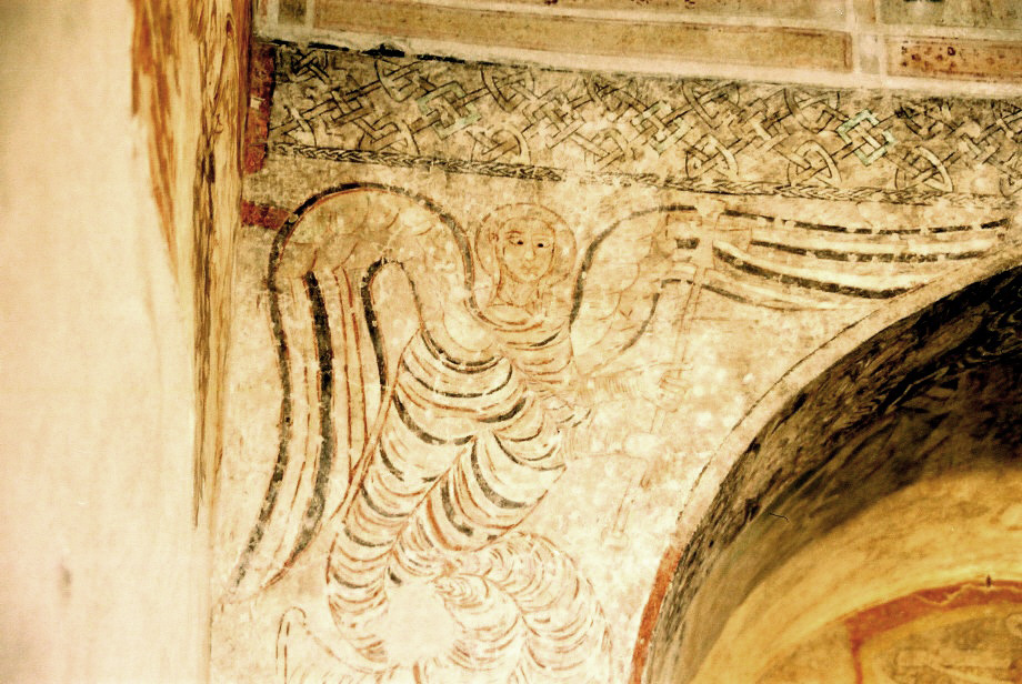 7th-century fresco in Church of St. Proculus, Naturns, Italy (South Tyrol). Dating is uncertain; could be 8th-century or 9th-century (Carolingian).